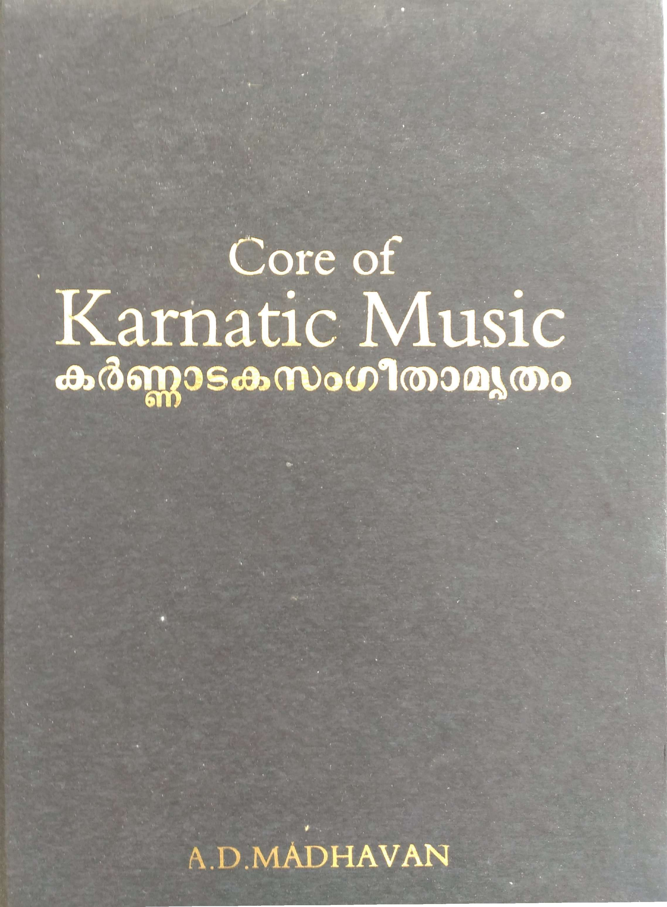 Cover page of the book Core of Karnatic Music